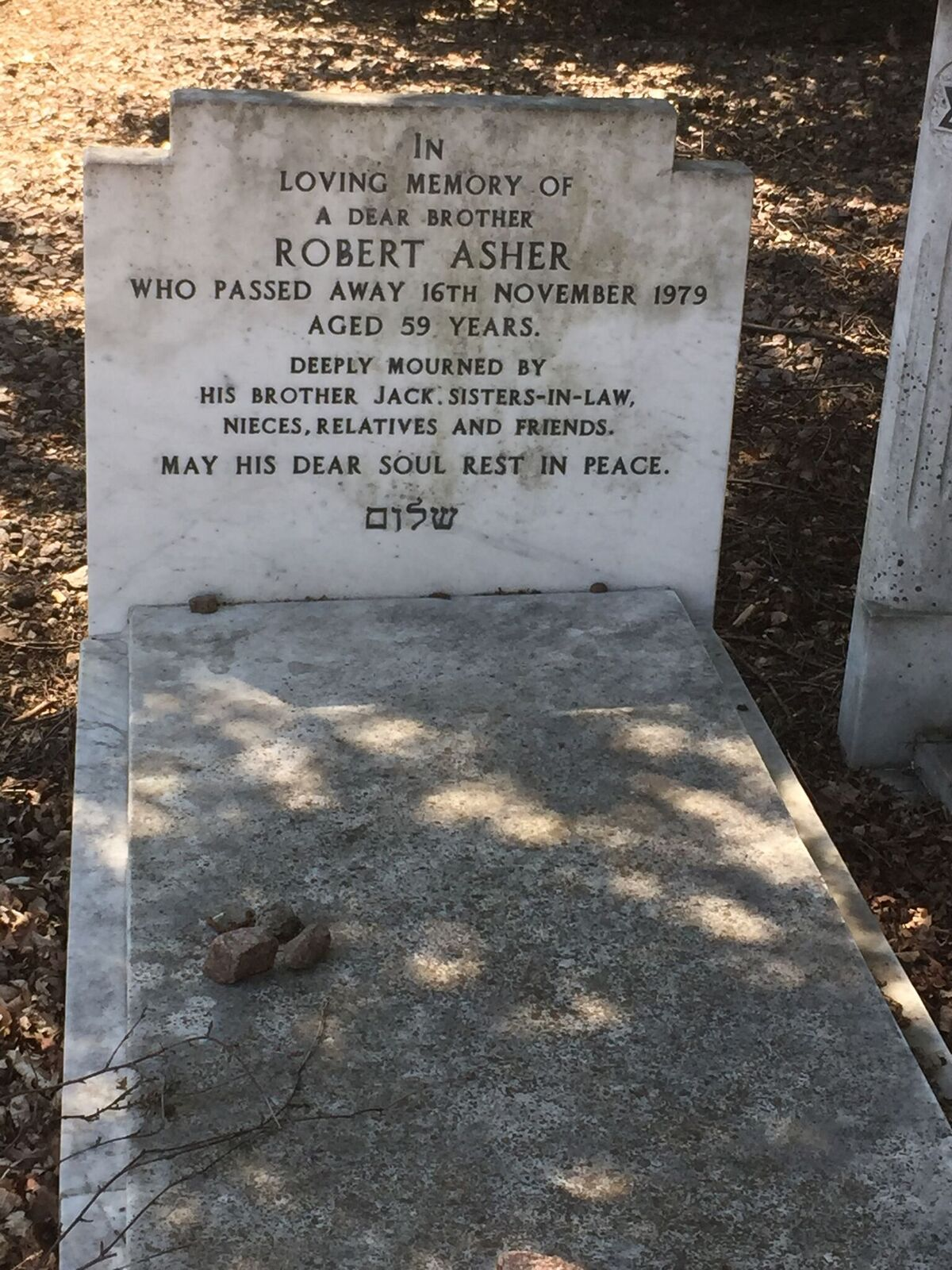 Grave of film director Robert Asher at New Southgate Cemetery in north London